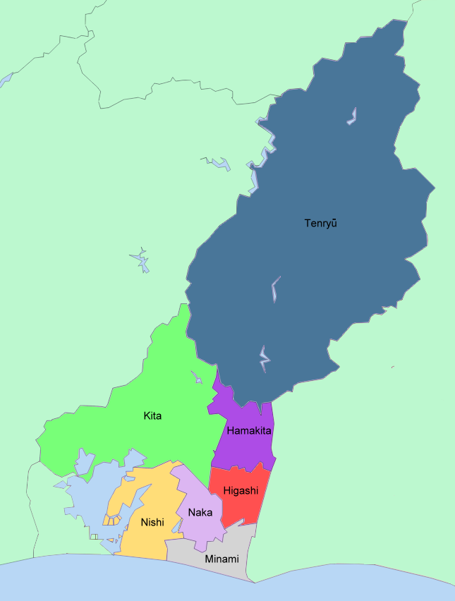 Map of wards of Hamamatsu